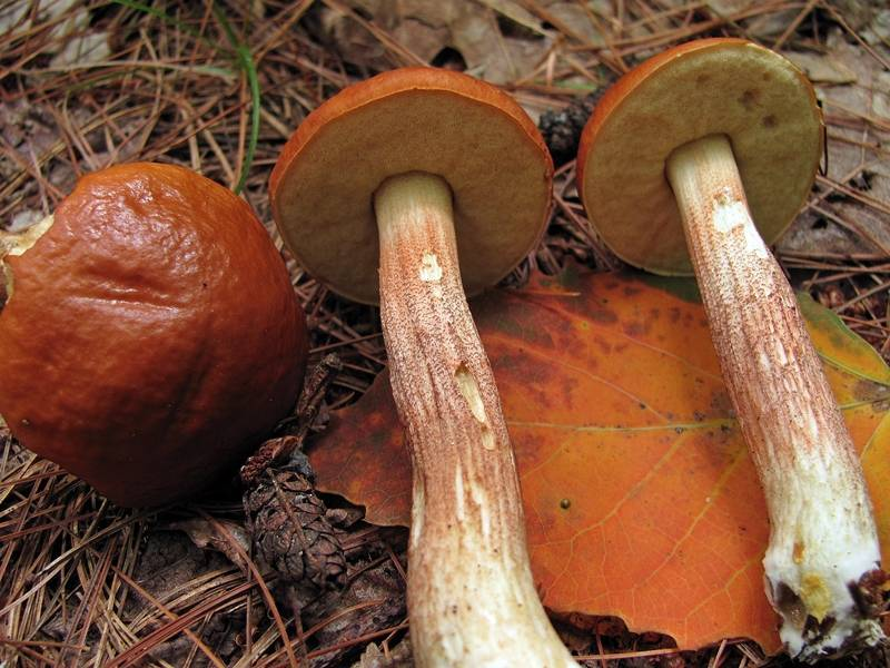 Boletus longicurvipes Snell & A.H. Smith For more information about this, see the observation page at Mushroom Observer.